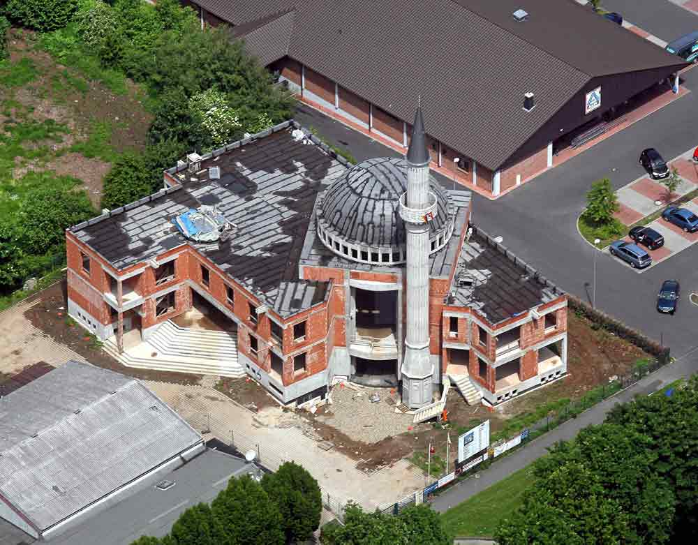 Mevlana Moschee - bird perspective